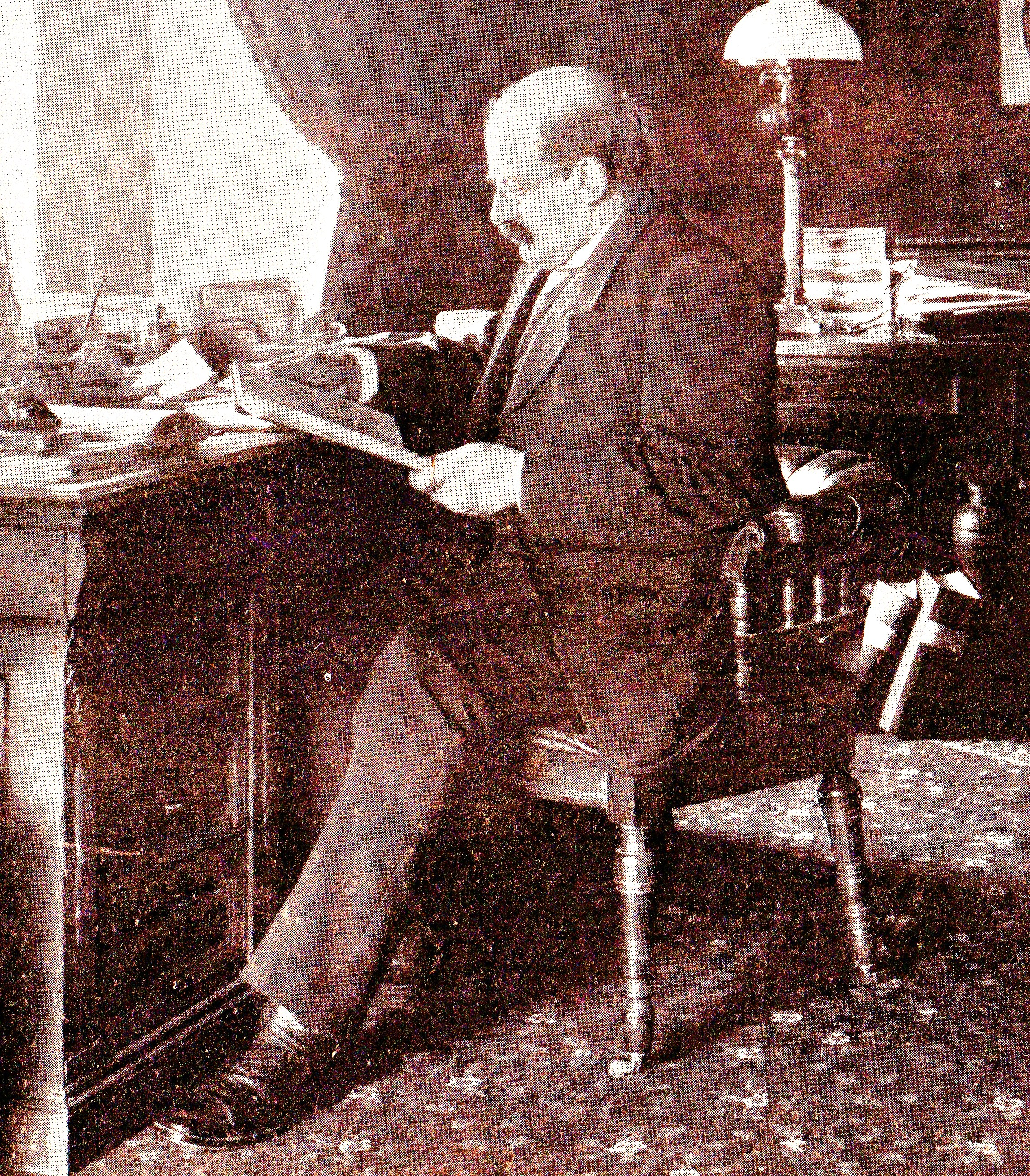 A. Kerdijk